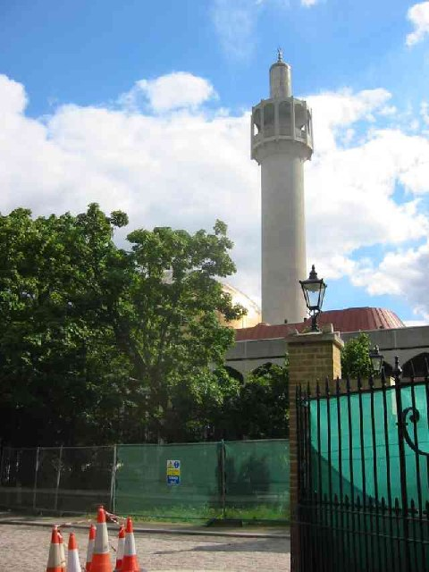 The Mosque in Regents Park. The gilt on the dome is beginning to become rather tarnished. Not sure if a muezzin calls from the minaret